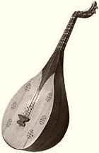 a scan from a 1910 pamphlet